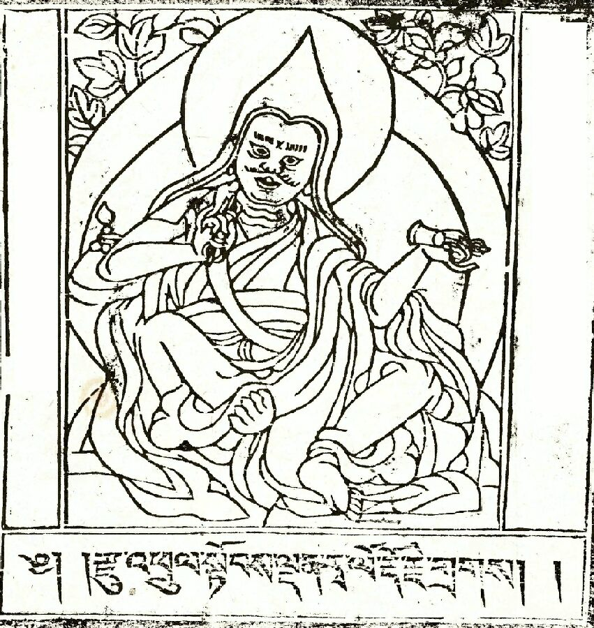 Ra Lotsāwa b.1016 - d.1128, Tibetan Buddhist